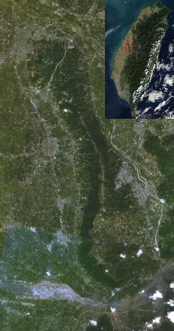 Bagua Plateau.It's from a screenshot of NASA World Wind.